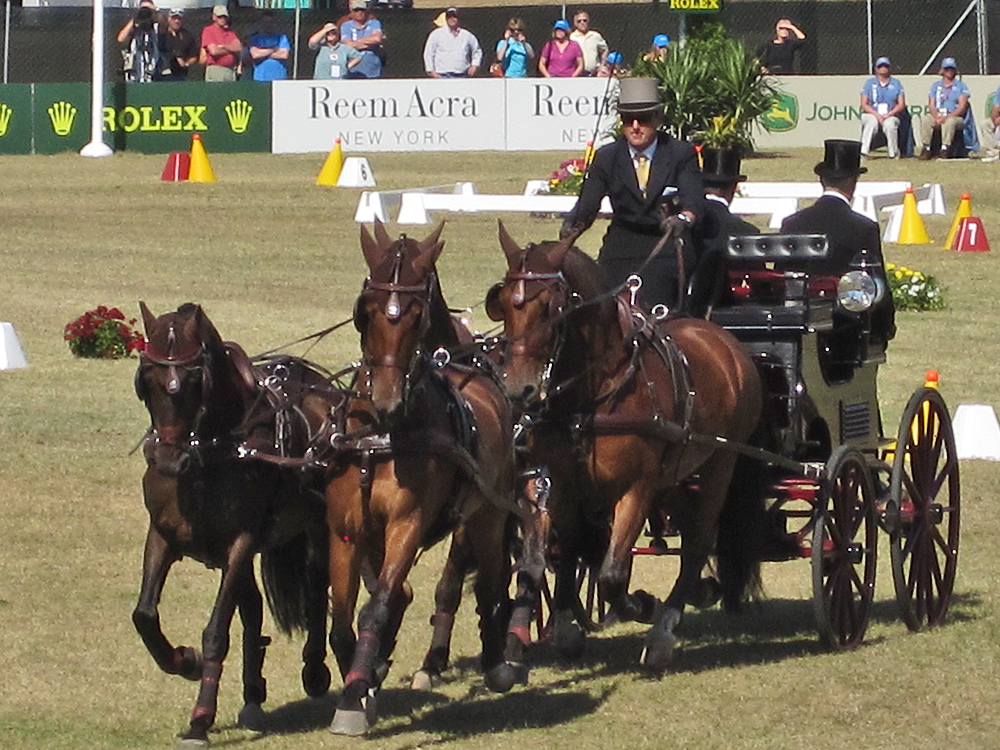 World Equestrian Games Dressage Driving in 2010